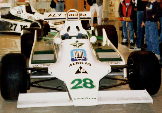 1979 Clay Regazzoni's FW07. Cropped version of Image:Williams F1 FW07.jpg, some editing done.